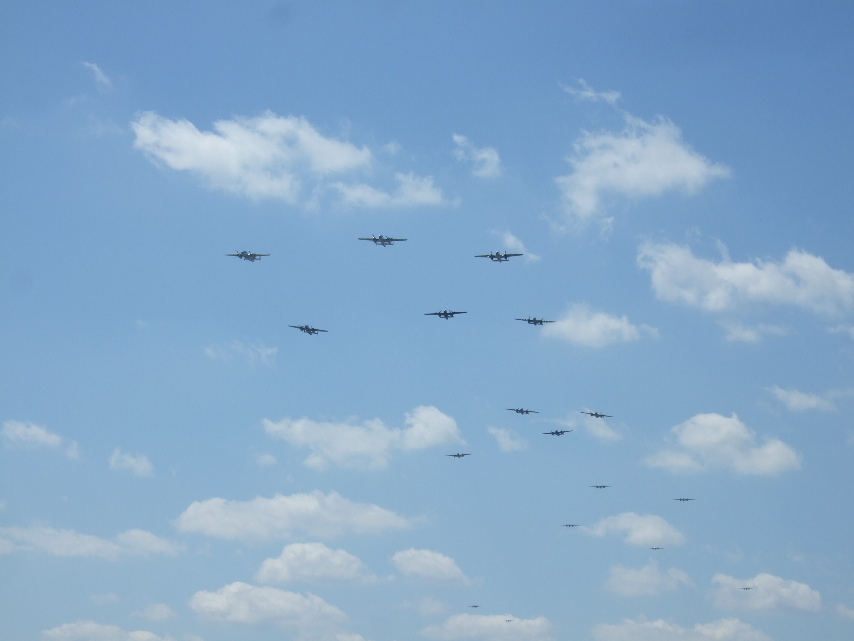 17 B-25s forming up over Wright Field at Wright-Patterson AFB Dayton, Ohio April 18th, 2012